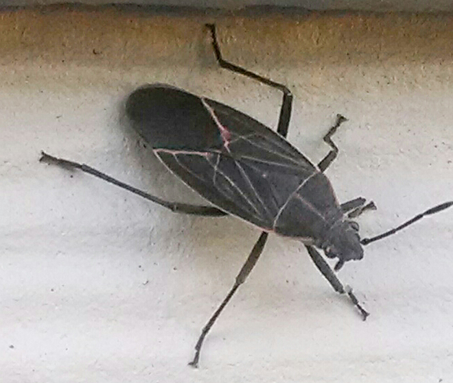 Boxelder Bug from Clackamas Oregon, Boisea rubrolineata